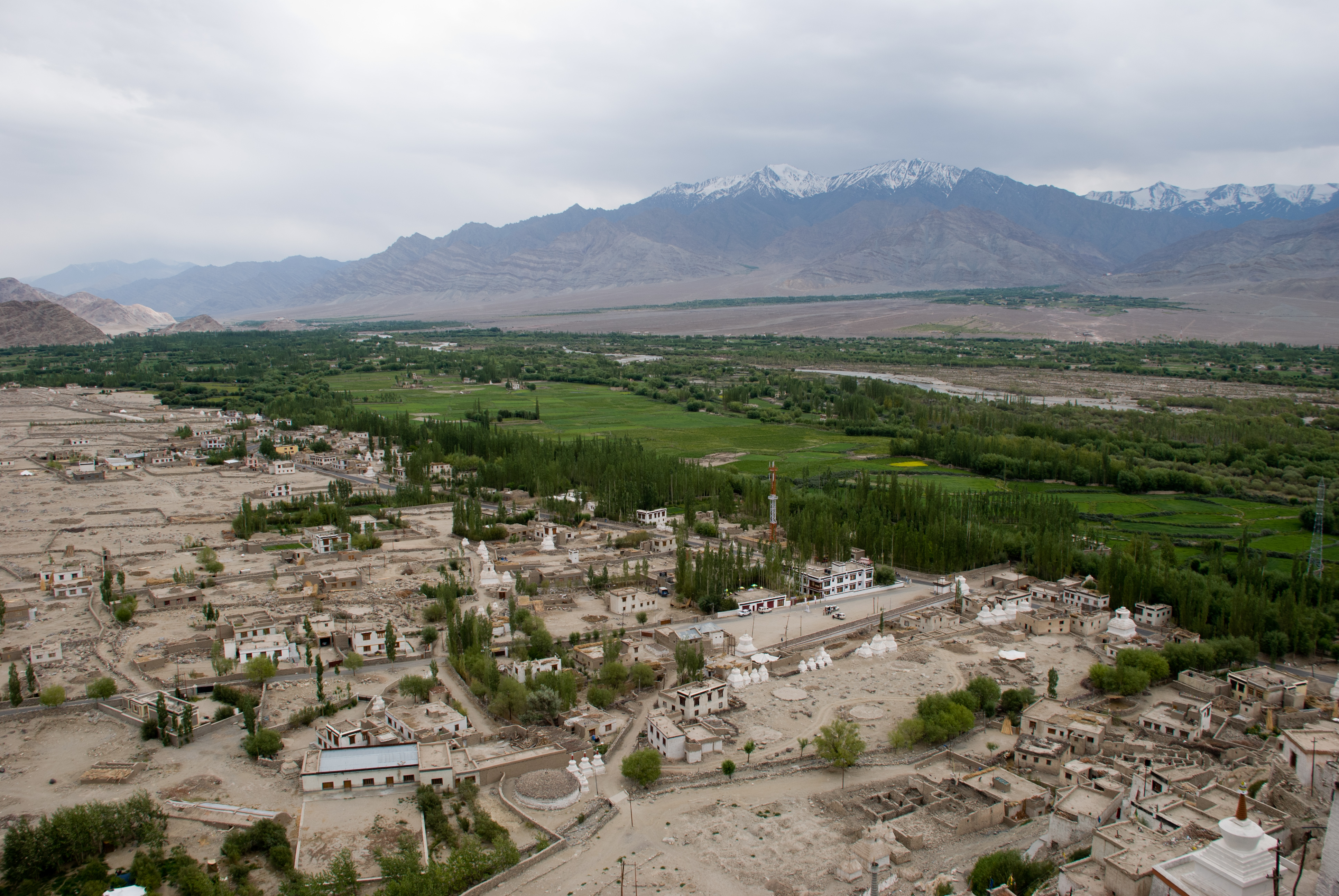 View from Thiksey Monastery